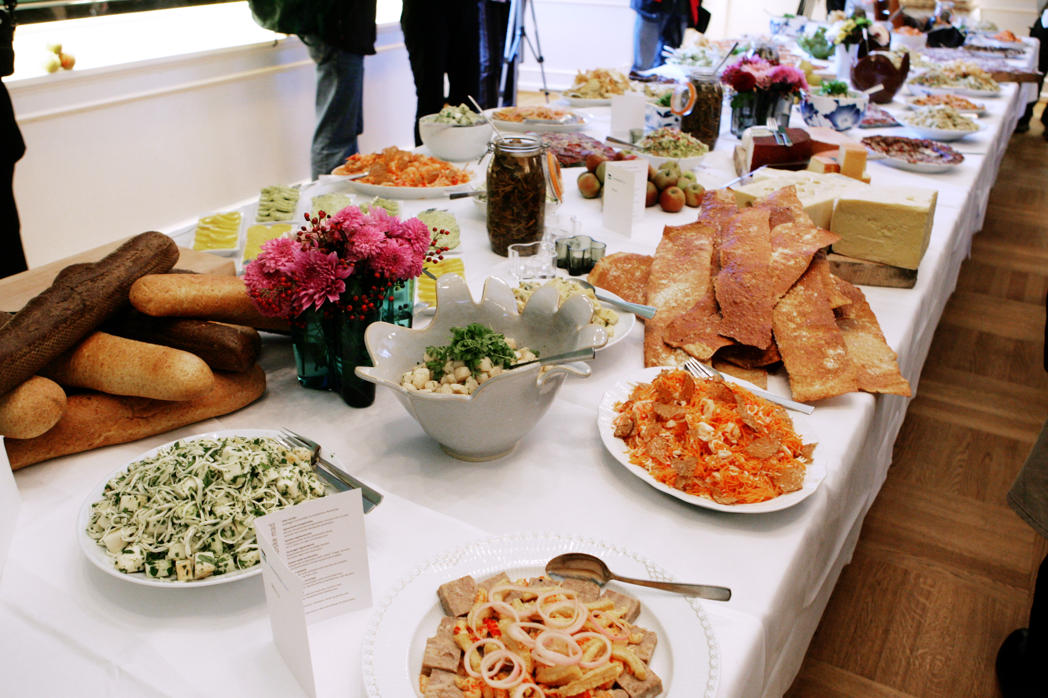 Food